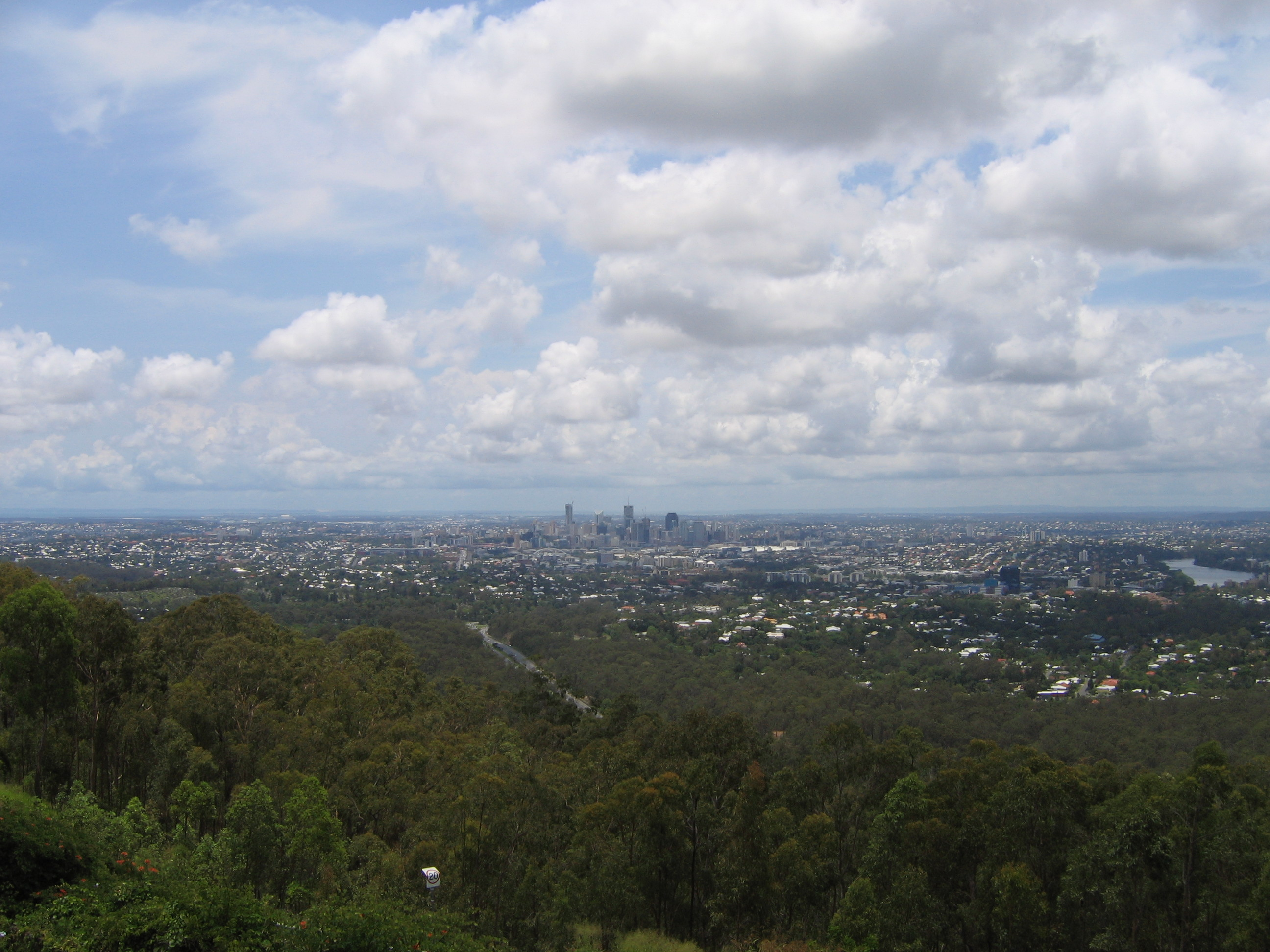 The City of Brisbane, Queensland, Australia, seen from the nearby Mt. Coot-tha